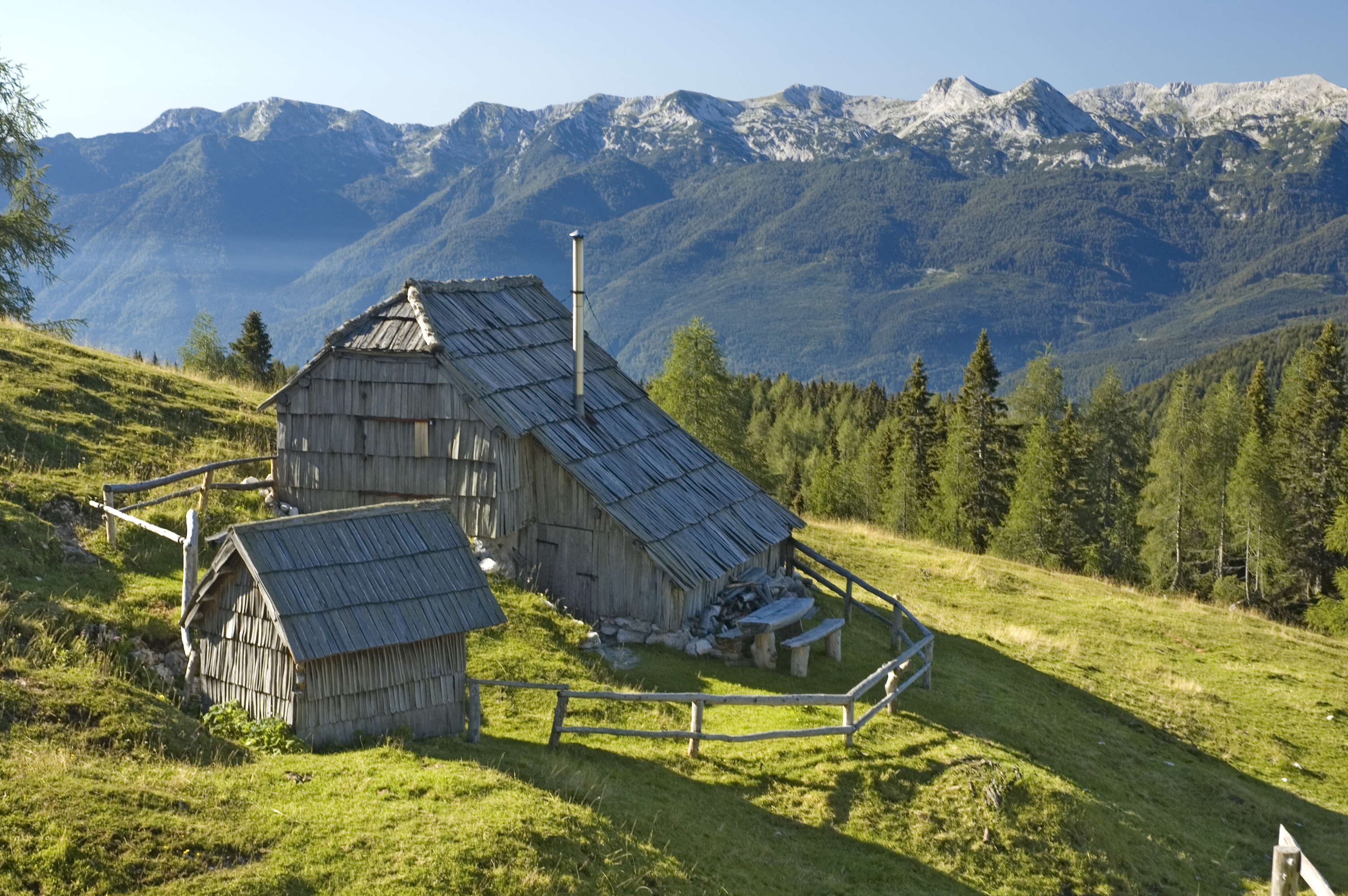 Sunny day high in the Bohinj Mountains.